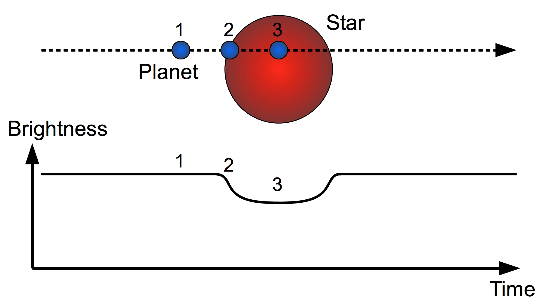 Illustration of the transit method for the detection of extrasolar planets